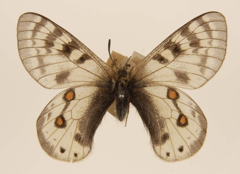 A specimen of Parnassius hunza (Grum-Grshimailo, 1888) from the Ulster Museum. Male Himalayas, Chitral, Evans, Coll. Bingham 1909 Ex Herbert Druce 1913 ex Hill Museum. Specimen determined by Robert Nash and Curt Eisner following label.